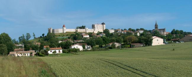 View of the chateau in Villebois-Lavalette, Charente, South-West France